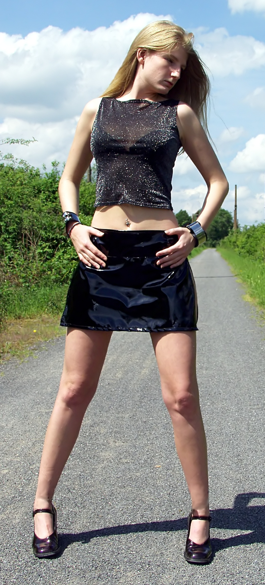 Fotomodel in a miniskirt at Landschaftspark Duisburg-Nord